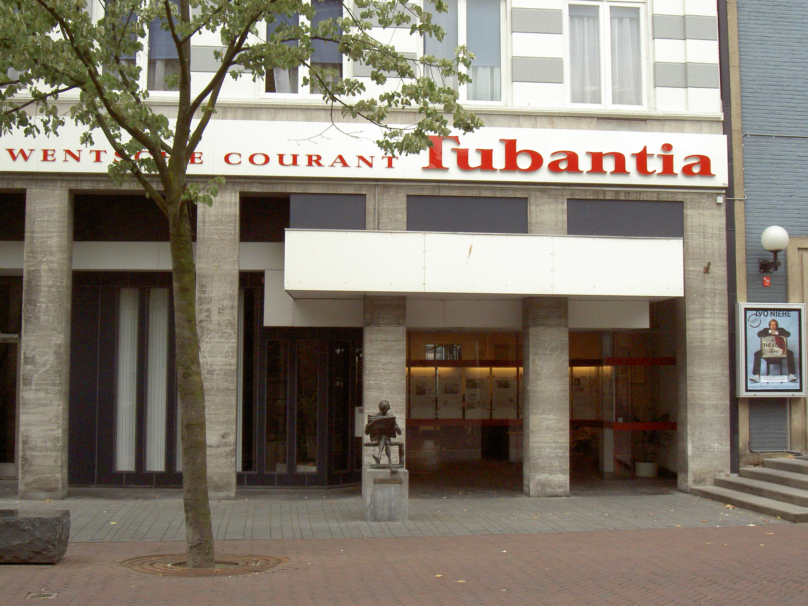 The Twentsche courant Tubantia (local newspaper) building. (Missing T, better picture needed.)